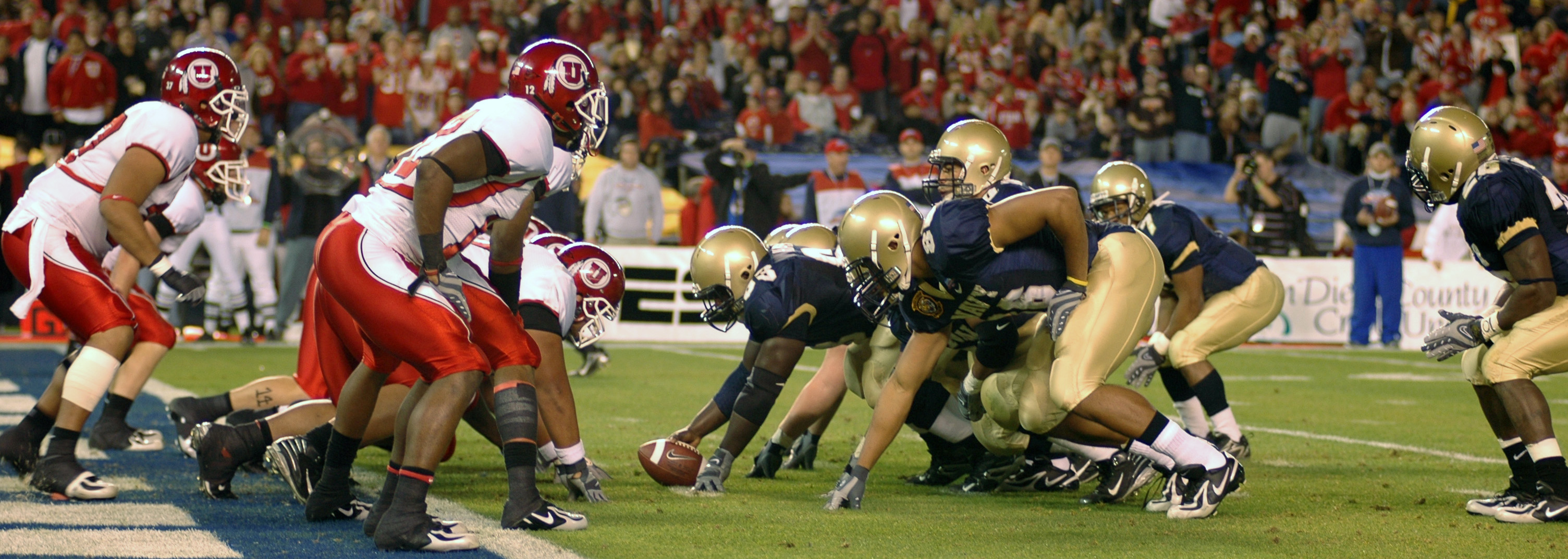 The U.S. Naval Academy and University of Utah football teams compete in the annual San Diego County Credit Union Poinsettia Bowl at Qualcom Stadium. More than 1200 midshipman traveled from the East Coast to show support for their team, who played strong until, but were defeated by the Utes, 37-35. U.S. Navy photo by Mass Communication Specialist 3rd Class Sean Patrick Lenahan (Released)